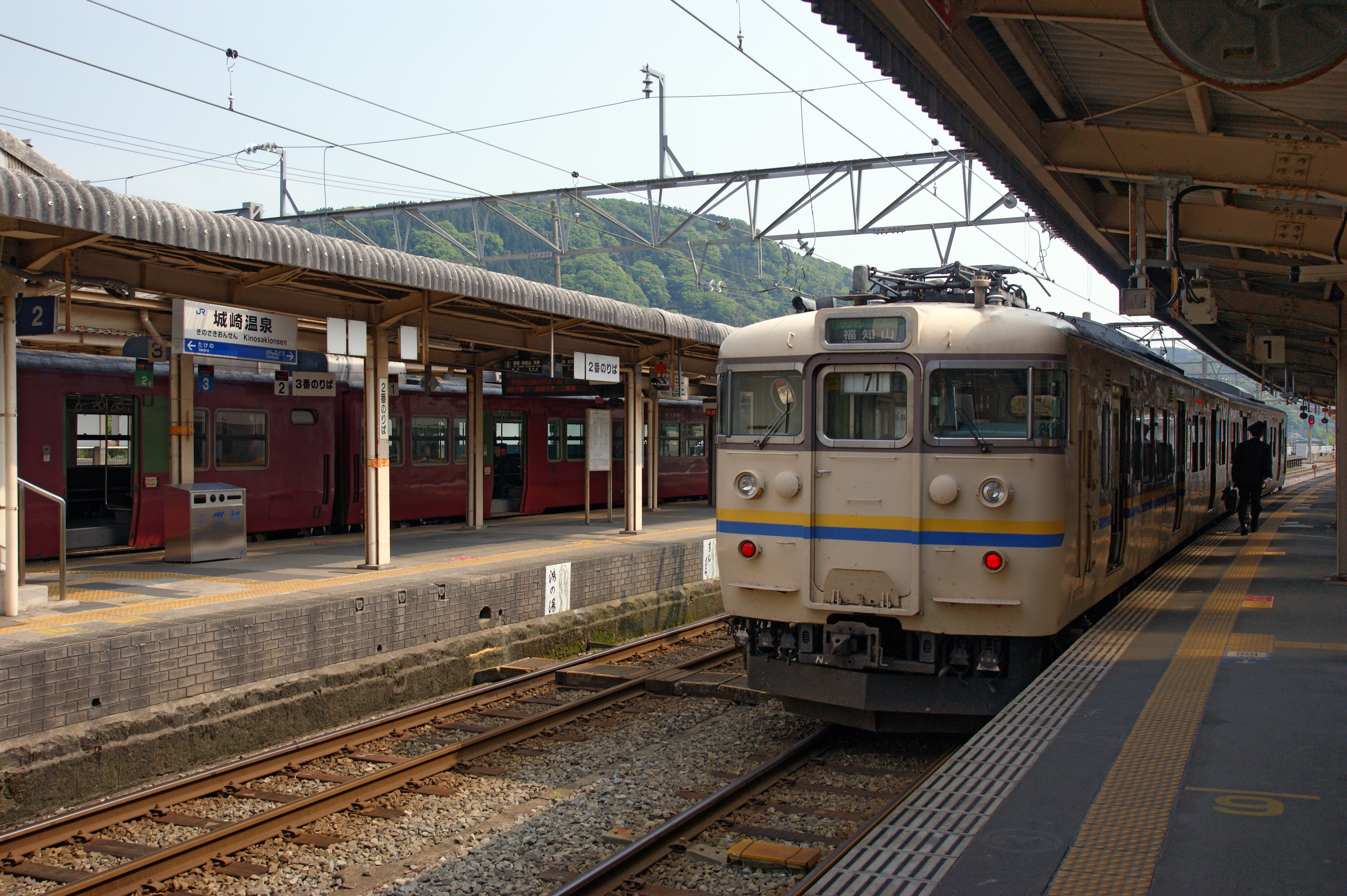 View from platform 1 at Kinosaki Onsen Station in Toyooka, Hyogo Prefecture, Japan